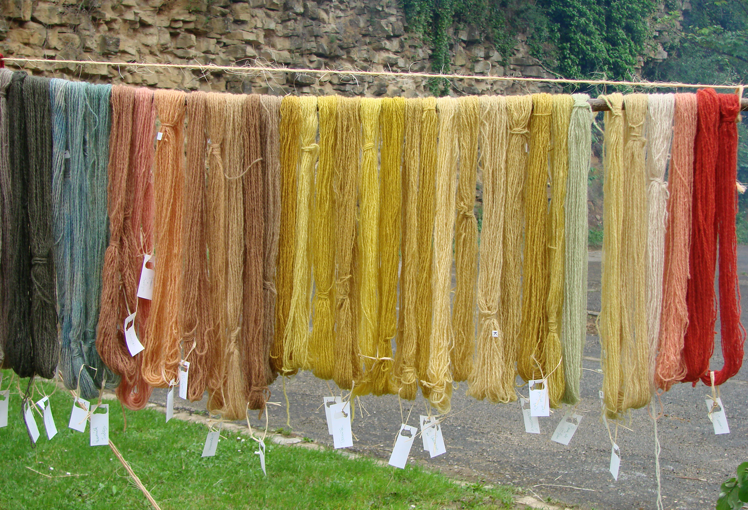 Skeins of wool dyed with natural plant dyes. Medieval Festival of Sedan, May 20, 2007.